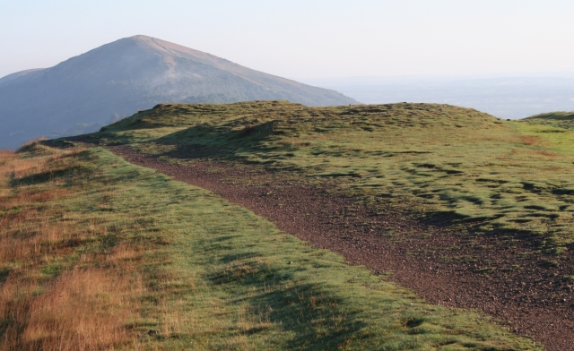 Tumuli on Pinnacle Hill Located on the northern of the two peaks of Pinnacle Hill. These Bronze Age burial chambers are positioned such that they could be seen on the skyline from the fields below. They have been robbed of any grave goods long, long ago and are much diminished in size due to the thousands of feet trampling the ridge every year. Worcestershire Beacon is in the distance.